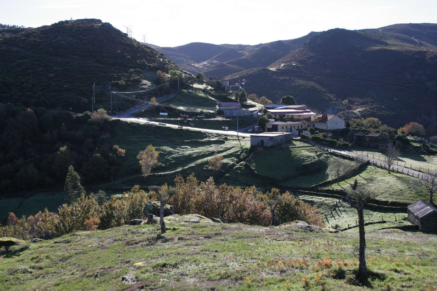 A Airoa, A Laxe, Fornelos de Montes (Spain)